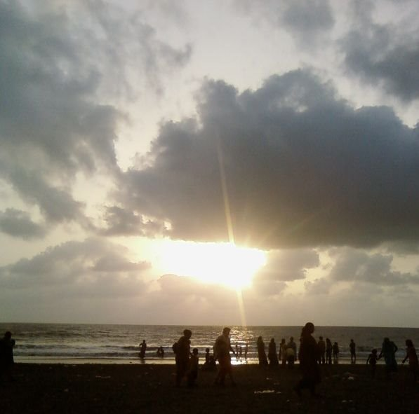 Beautiful sunset at Parnaka Beach